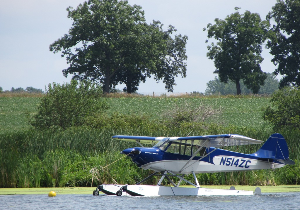 Aviat Husky